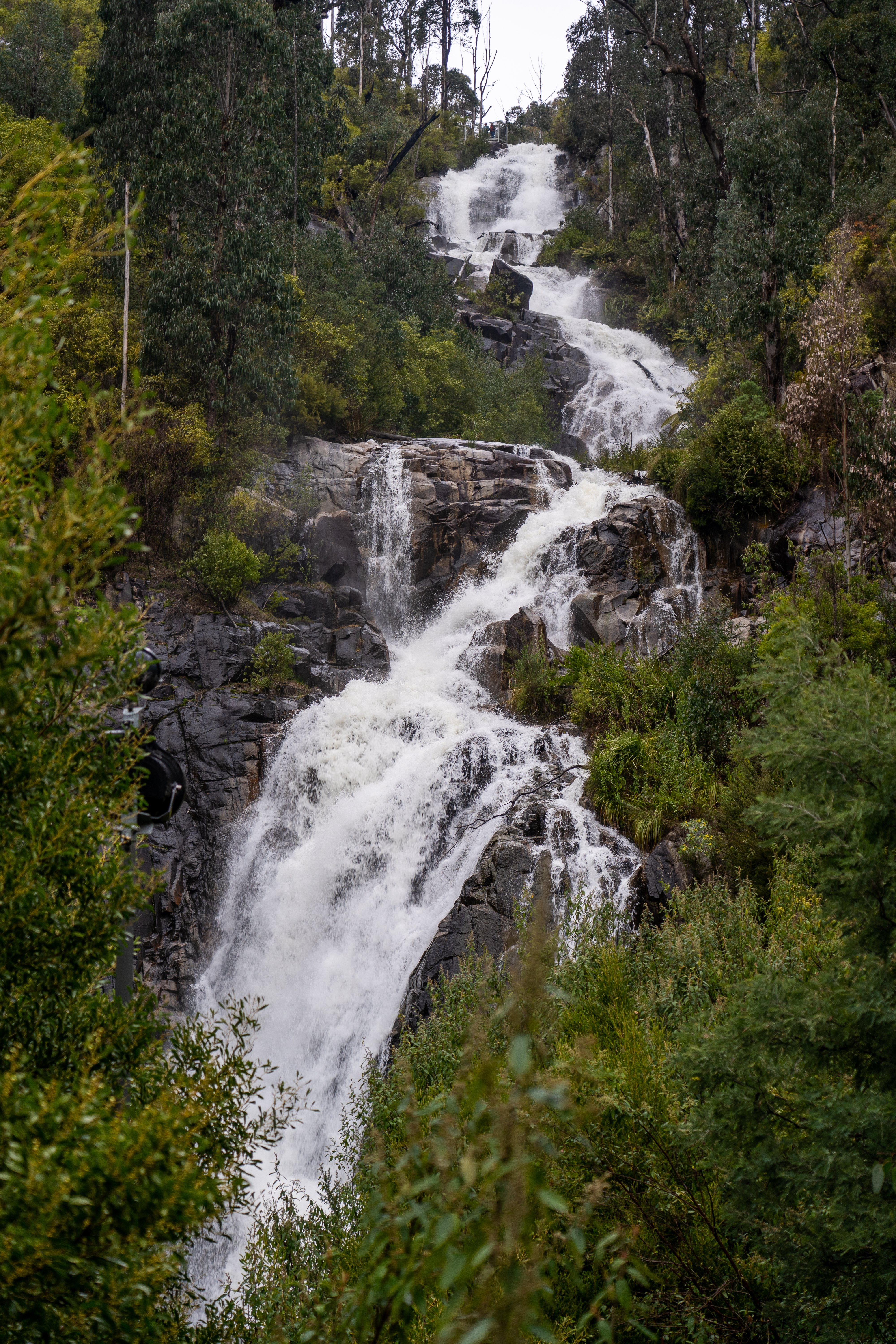 Steavenson Falls on the Steavenson River near Marysville, Victoria, Australia.